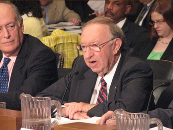 Photograph of Harold R. Denton testifying before the United States Senate Committee on Environment and Public Works, about the Three-Mile-Island incident that occurred in 1979, "Looking Back on Thirty Years of Lessons Learned".